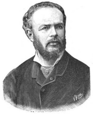 Louis Tirman (29 July 1837 – 2 August 1899), Prefect of Puy de Dôme from 21 March 1876 to 16 May 1877